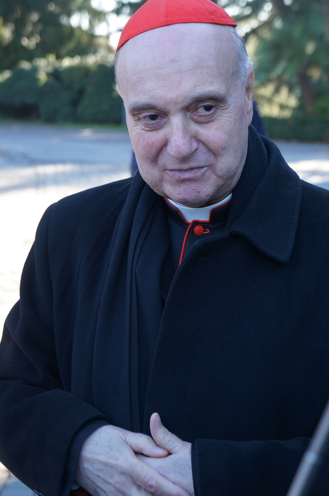 Photo of Cardinal Angelo Comastri, taken 11 Dec 12.